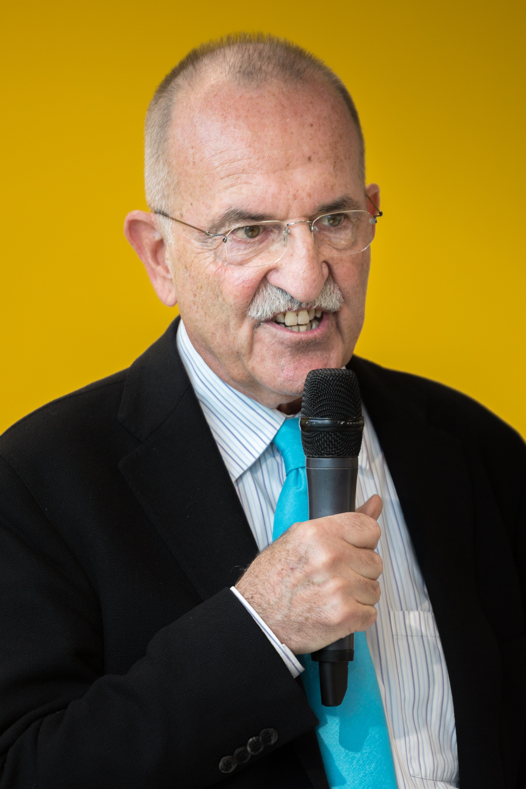 Stephan Ruß-Mohl at the Frankfurt Book Fair 2017